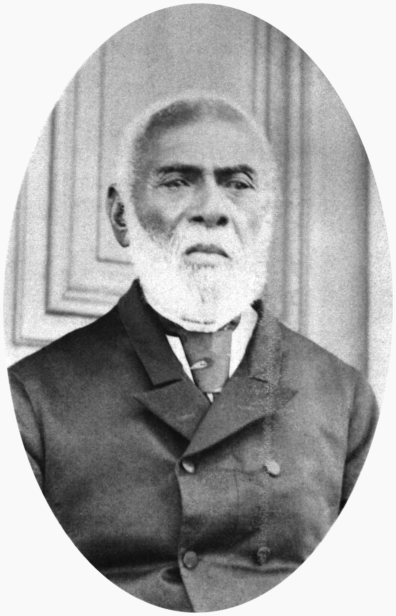 George Tupou I, King of Tonga (c. 1797 – 18 February 1893).